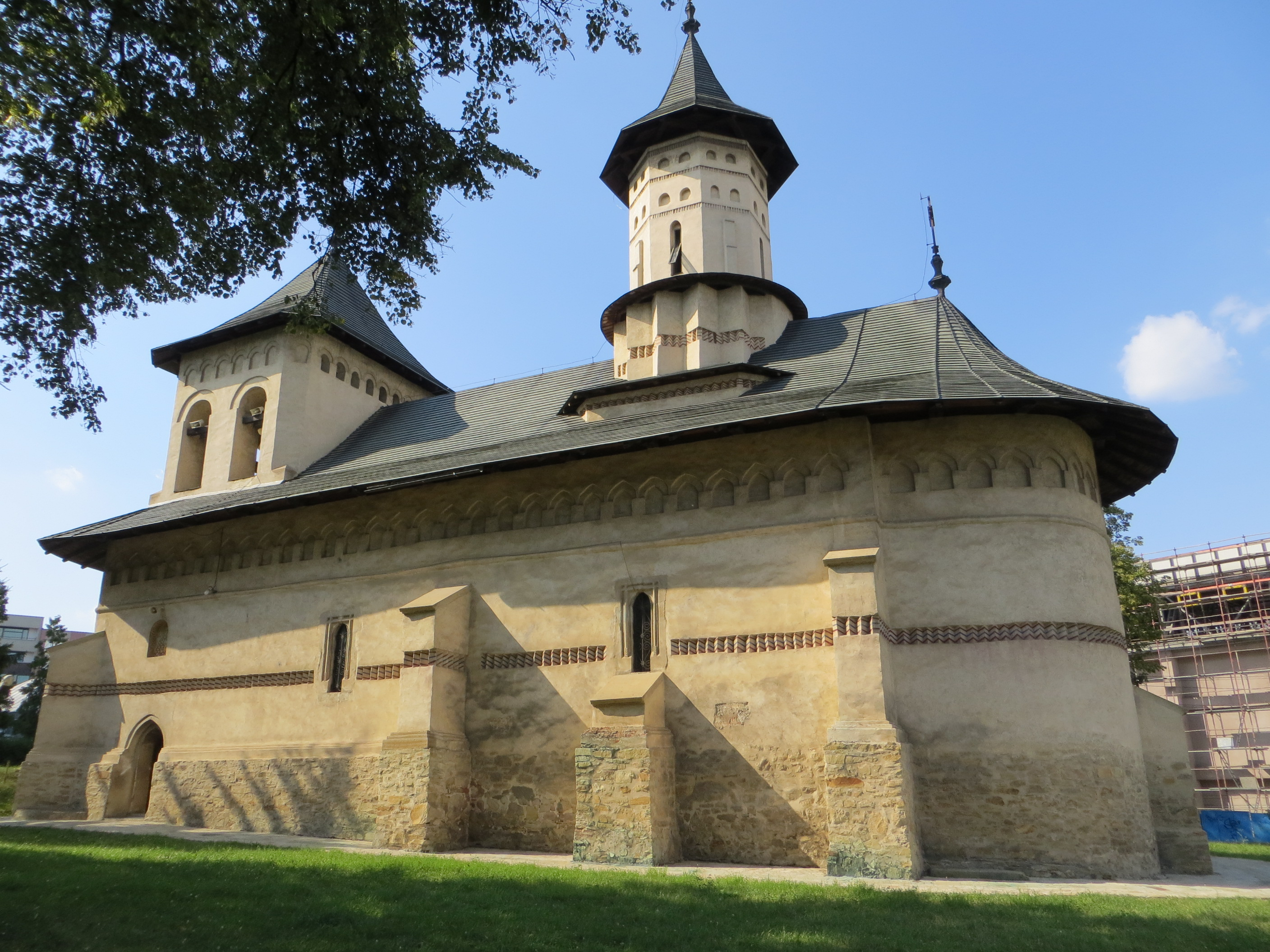 St. Nicholas Church in Suceava.